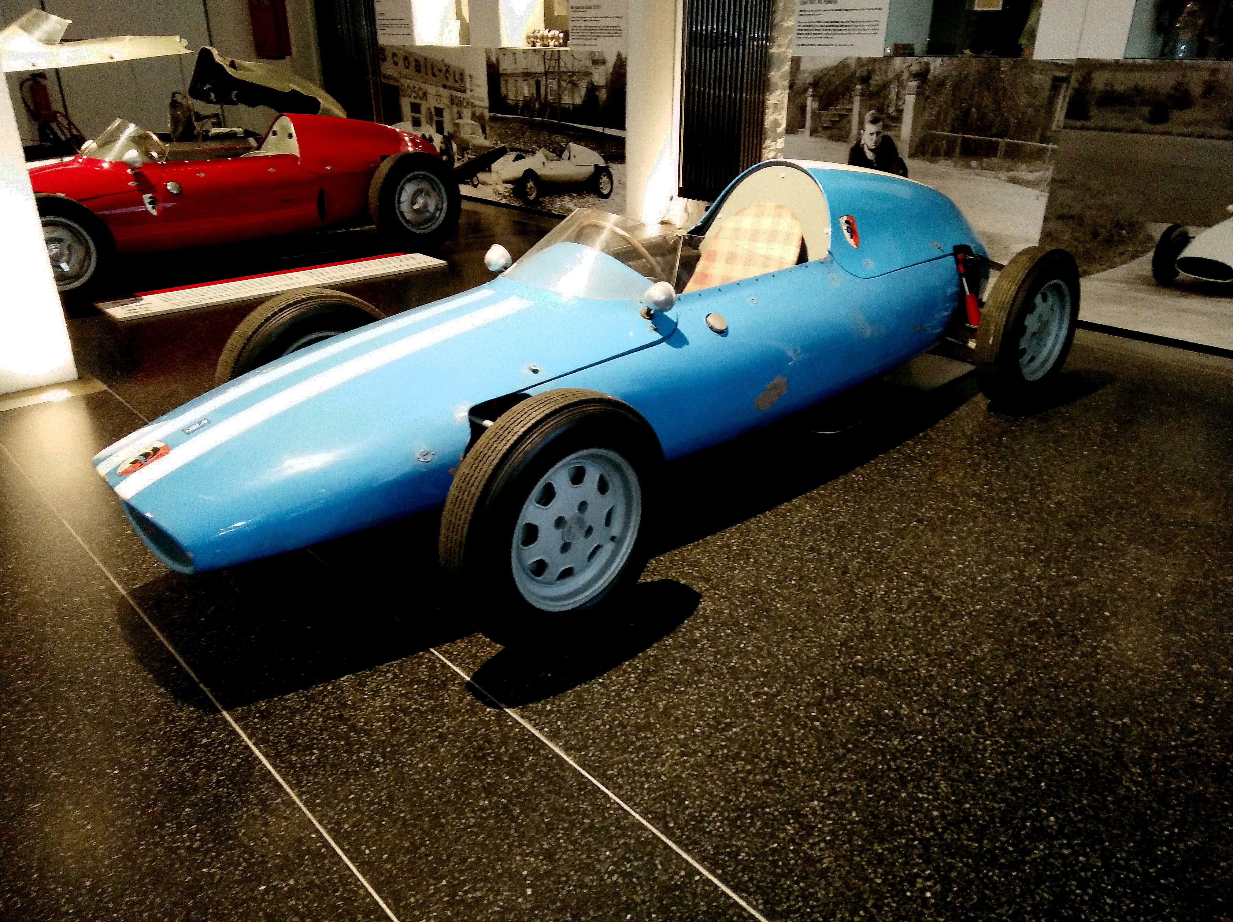 Isis Formula Junior Racing Car, Chassis No. 002. Constructed by De Tomaso, built by Fantuzzi. Exhibited in Prototypenmuseum, Hamburg, Germany.